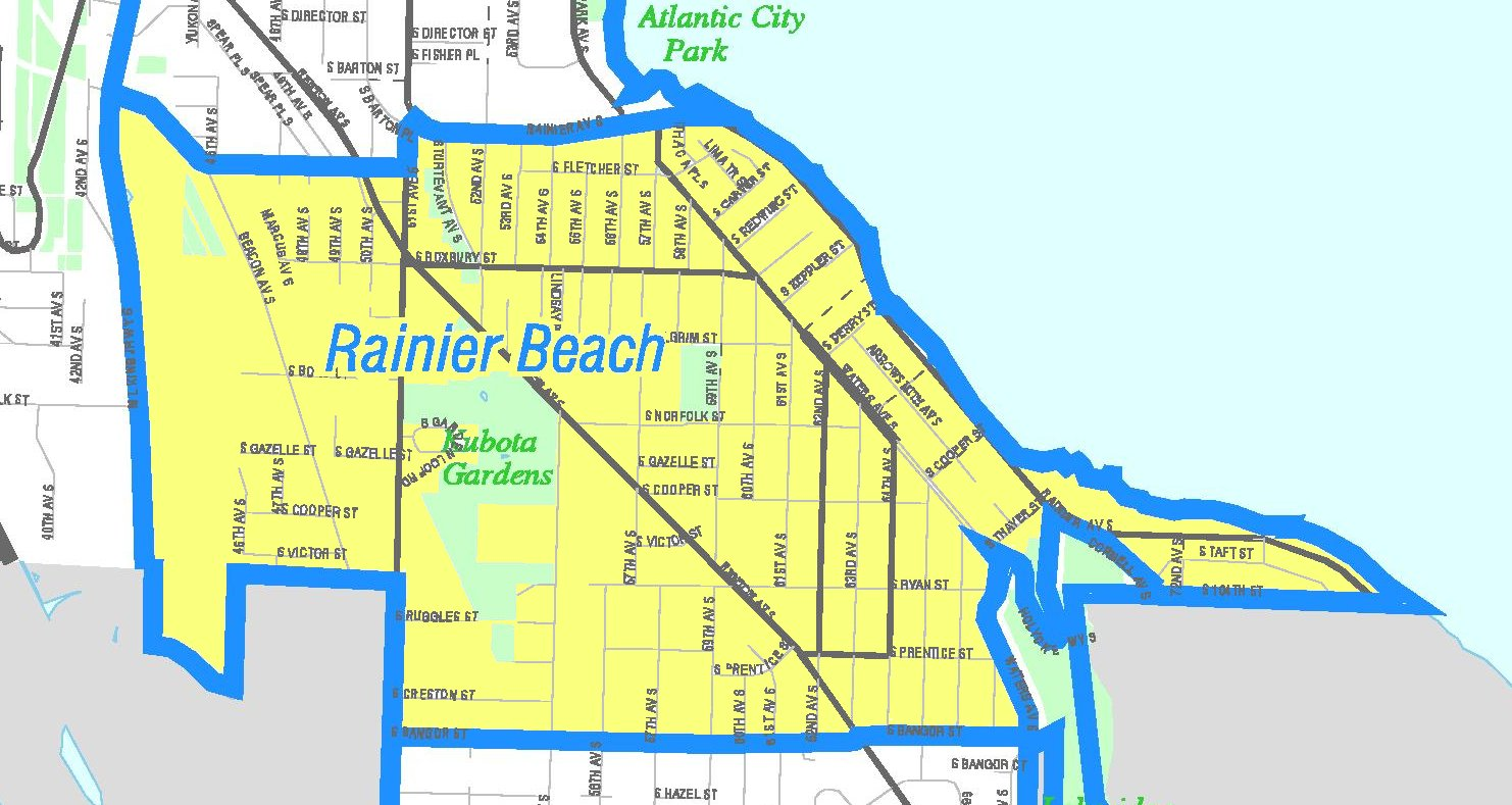 Map of Seattle's Rainier Beach neighborhood. Like the other maps from the Seattle City Clerk's Neighborhood Map Atlas, this is not an official map; in particular, borders are not official. Disclaimer: The Seattle Neighborhood Atlas, which the Seattle Clerk's Office has placed in the public domain (as confirmed by OTRS ticket 2008033110016048) contains some general commentary on the maps, "About Maps", which should typically be linked as an accompaniment to these maps to (in their words) "minimize the numerous 'complaints' or comments by users who feel it necessary to point out how the Clerk's Office is 'wrong' about a certain section of town." In particular, "About Maps" says that the atlas "is designed for subject indexing of legislation, photographs, and other documents in the City Clerk's Office and Seattle Municipal Archives" and "is not designed or intended as an 'official' City of Seattle neighborhood map. There are many different ideas of what neighborhood districts exist in Seattle and what their names are…"